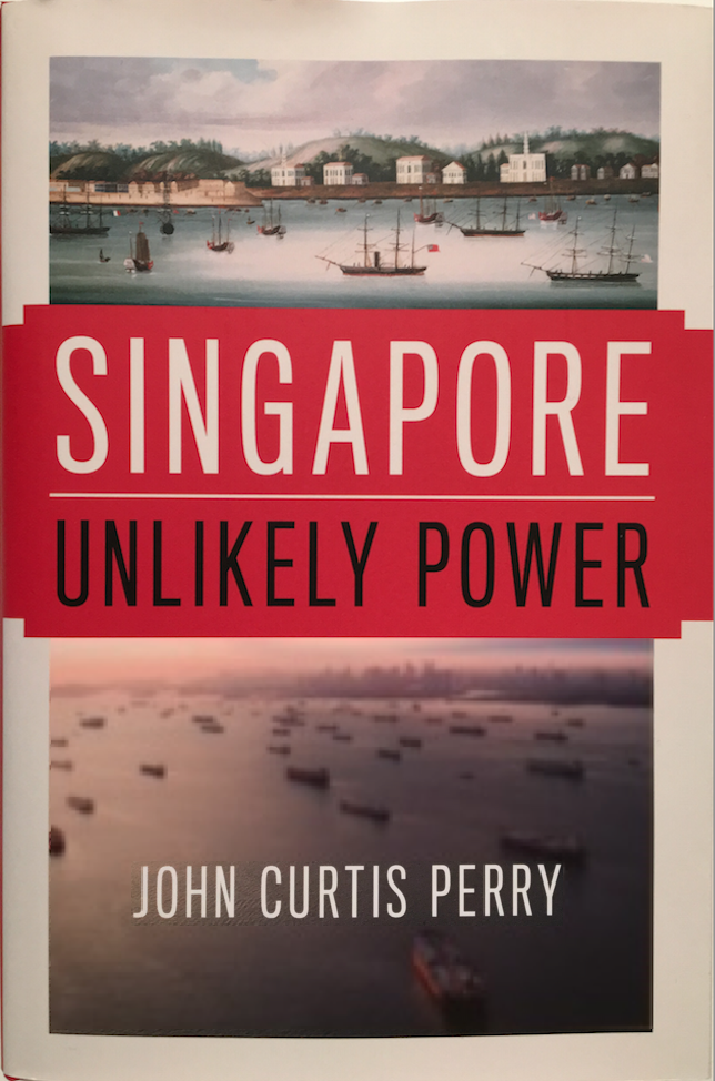 "Singapore - Unlikely Power" - 2017 Book by John Curtis Perry - Image of cover. Note that this image is a modified version from the original cover; the bottom third's image has been removed and replaced with a blurred out version to protect the original image's copyright.